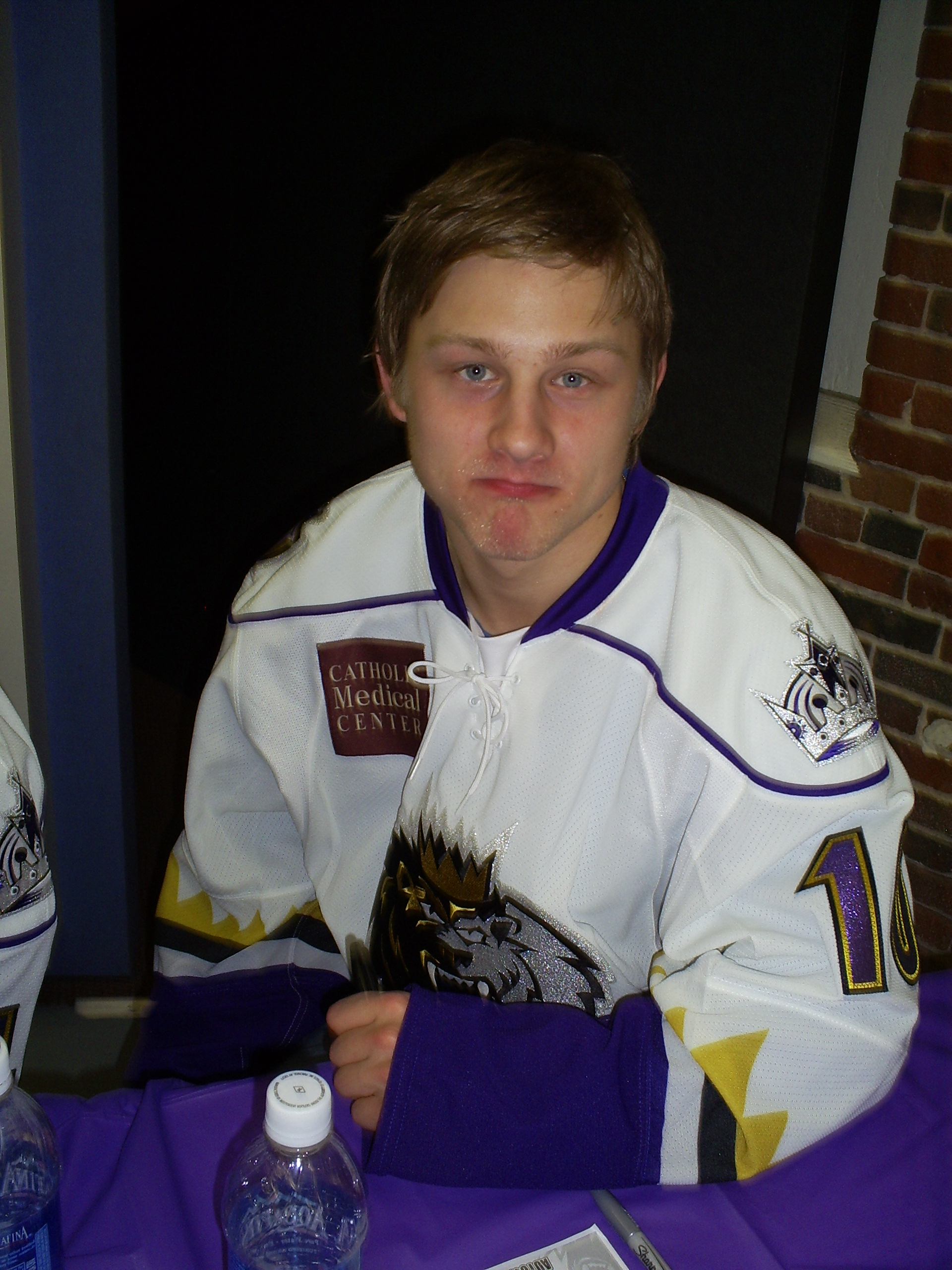 Photo by Craig Michaud.This is Oscar Möllar while on reconditioning with the Manchester Monarchs